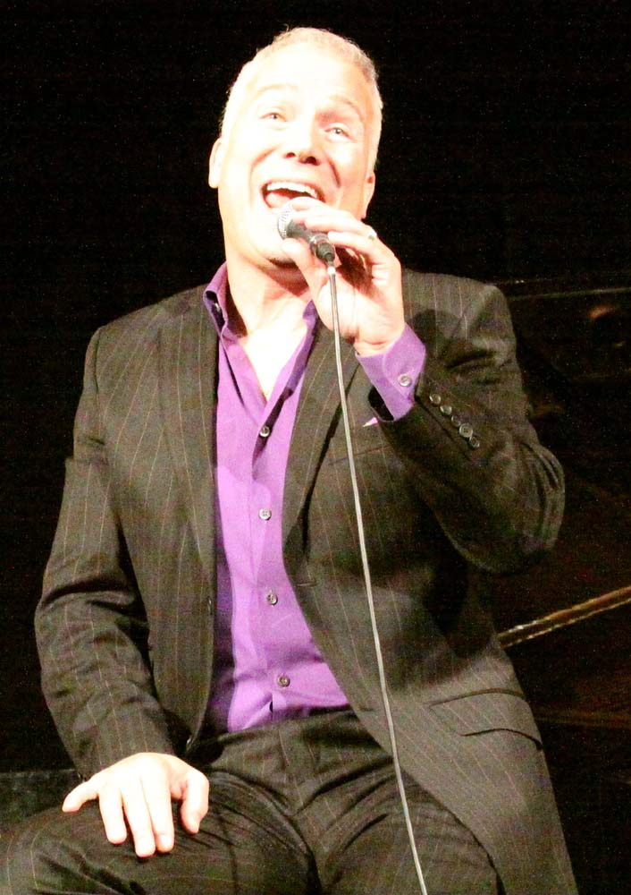 American singer and actor Franc D'Ambrosio appears at the Poncan Theatre in Ponca City, OK on October 9, 2010. Photo Credit: Hugh Pickens Note: Any use of this photo or any derivative work using this photo in print or on the web must include as an attribution, a photo credit to Hugh Pickens as indicated above and, if used on the web, must include a link to the web site of Hugh Pickens at